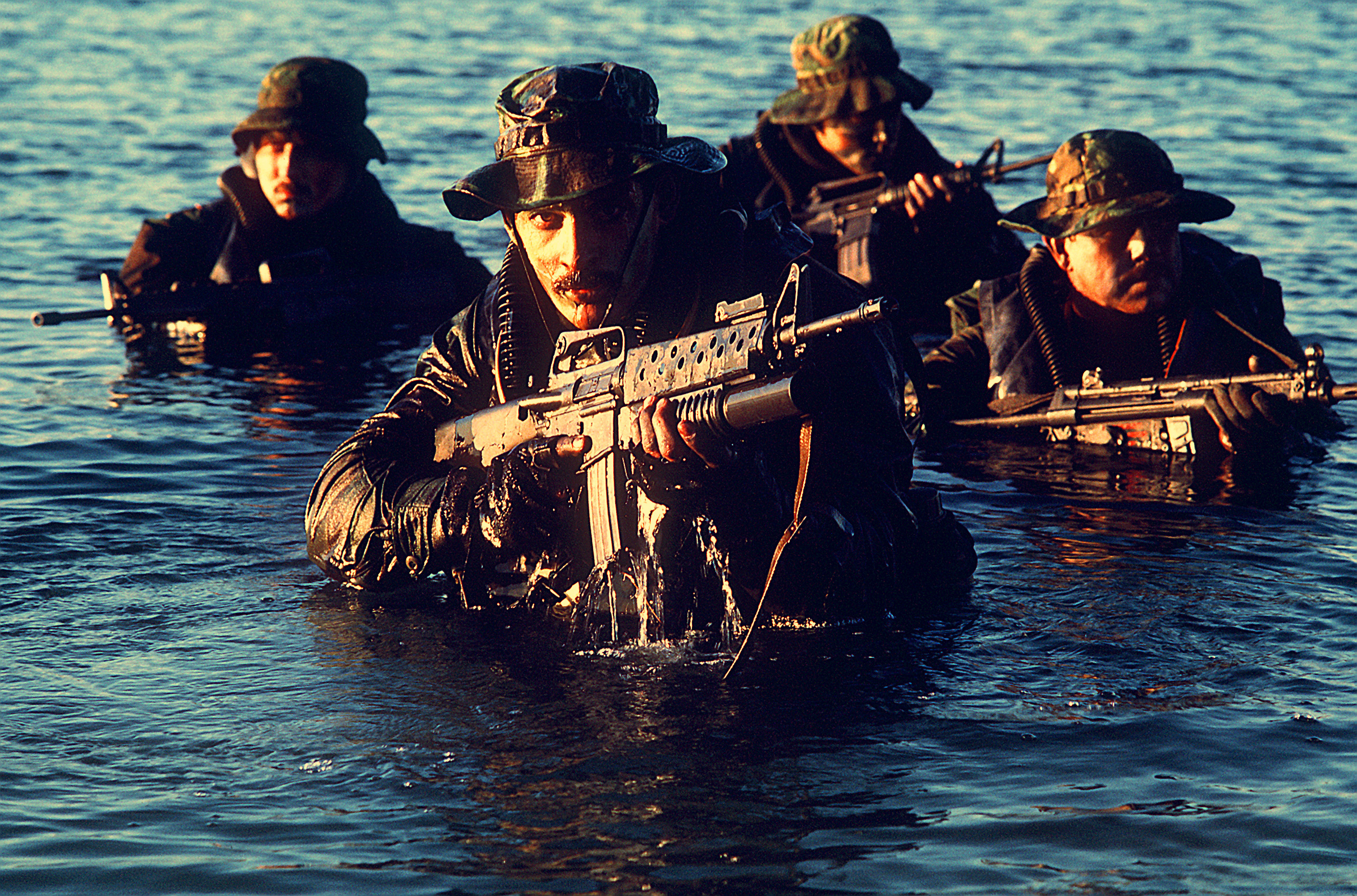 U.S. Navy Sea-Air-Land (SEAL) members emerge from the water during tactical warfare training. The SEAL member in the foreground is armed with an M-16A1 rifle equipped with an M203 grenade launcher. The SEAL member on the right is armed with an HK-33KA1 rifle.